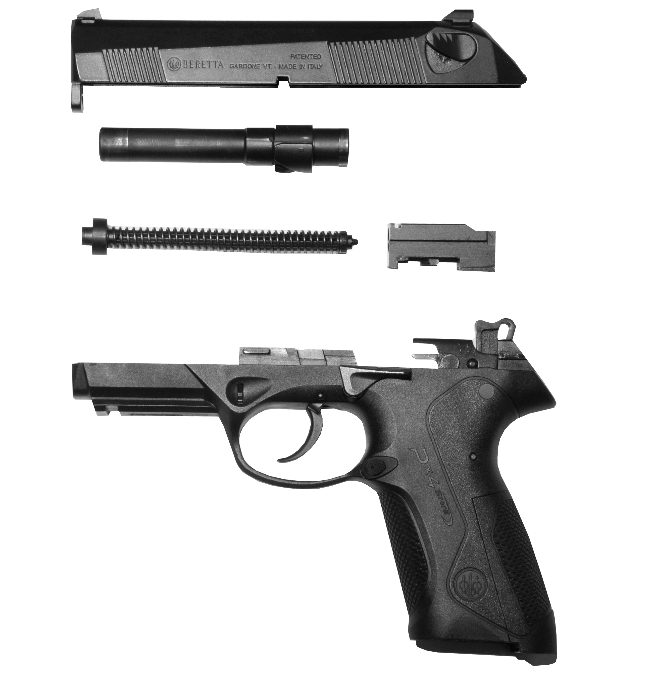 Picture of a field-stripped Beretta PX4 Storm.